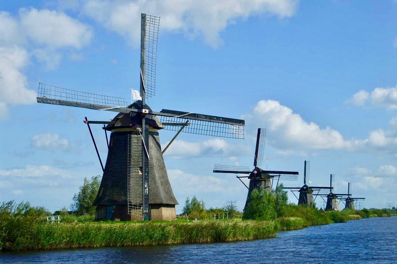 Kinderdijk windmill